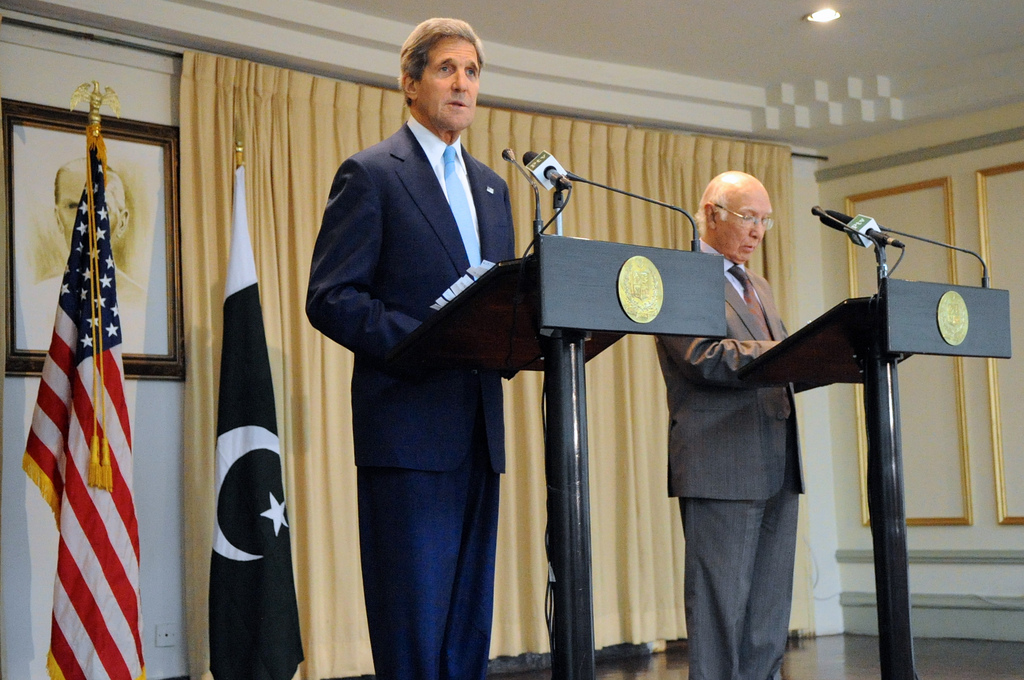 U.S. Secretary of State John Kerry and Pakistani Foreign Affairs Advisor Sartaj Aziz address reporters during a news conference in Islamabad on August 1, 2013. [State Department photo/ Public Domain]